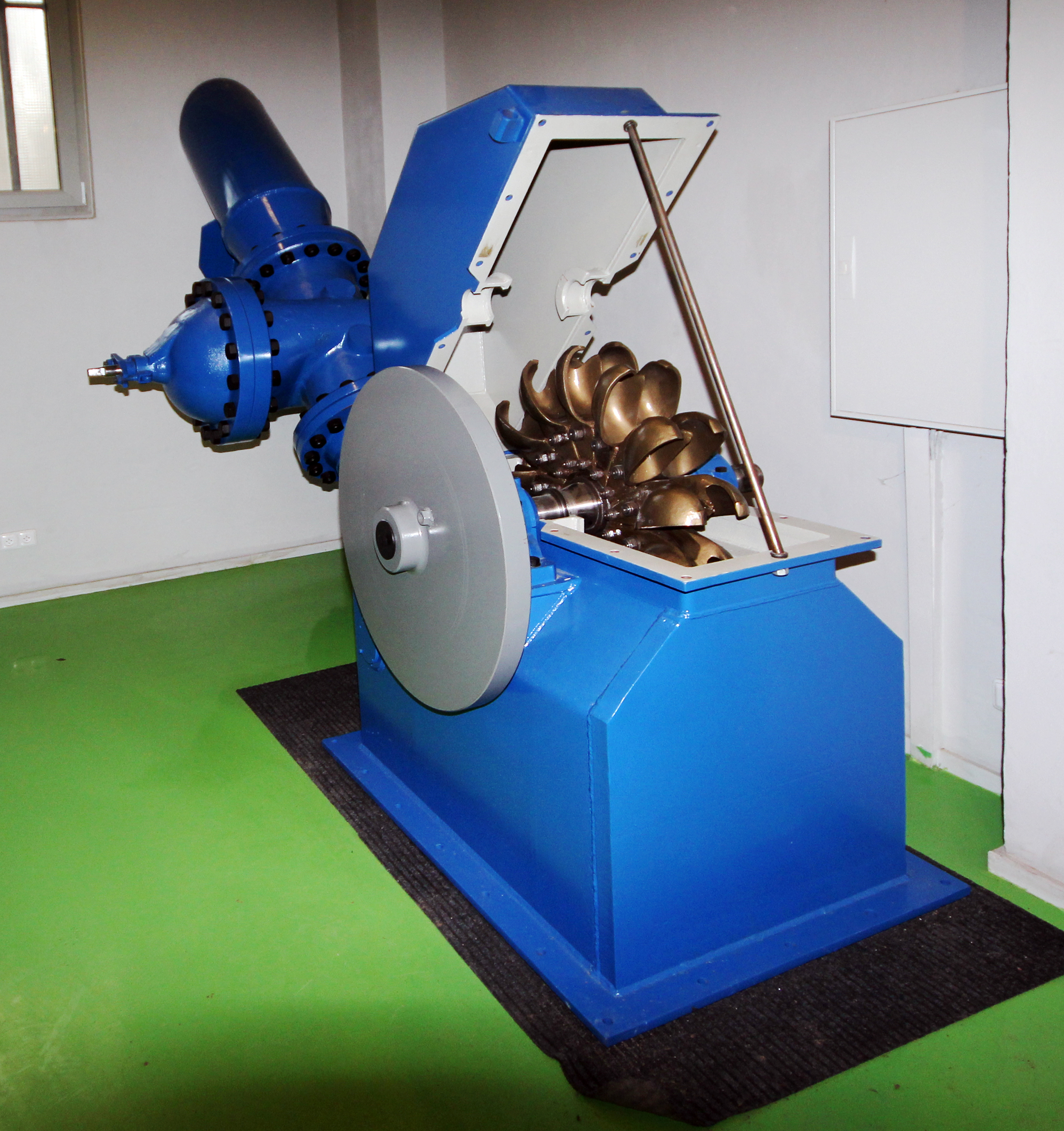 Small Pelton wheel in muzeum located in Hučák hydroelectric power plant on Elbe river in Hradec Králové, Czech Republic Česky: Malá Peltonova turbína umístěná v expozici malé vodní elektrárny na Jezu Hučák na řece Labi v Hradci Králové, východní Čechy